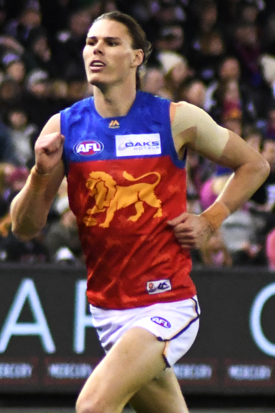 Eric Hipwood of Brisbane during the 2018 AFL round 21 match between Collingwood and Brisbane at Etihad Stadium on Saturday, 11 August 2018 in Melbourne, Victoria.